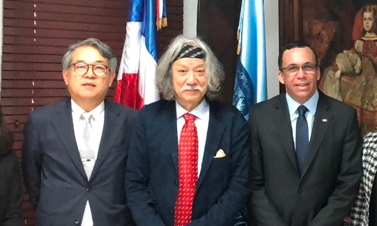 Jin Akiyama, Specially Appointed Vice President of Tokyo University of Science, met Andrés Navarro, Minister of Education, with Hiroyuki Makiuchi, Ambassador to Dominican Republic, in Dominican Republic on October 1, 2018.